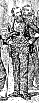 Portrait of William Mathews taken from an engraving published in the original edition of Scrambles amongst the Alps by Edward Whymper (1840-1911) (engraving by Whymper himself). The full engraving shows many of the main British alpinists in Zermatt in 1864.